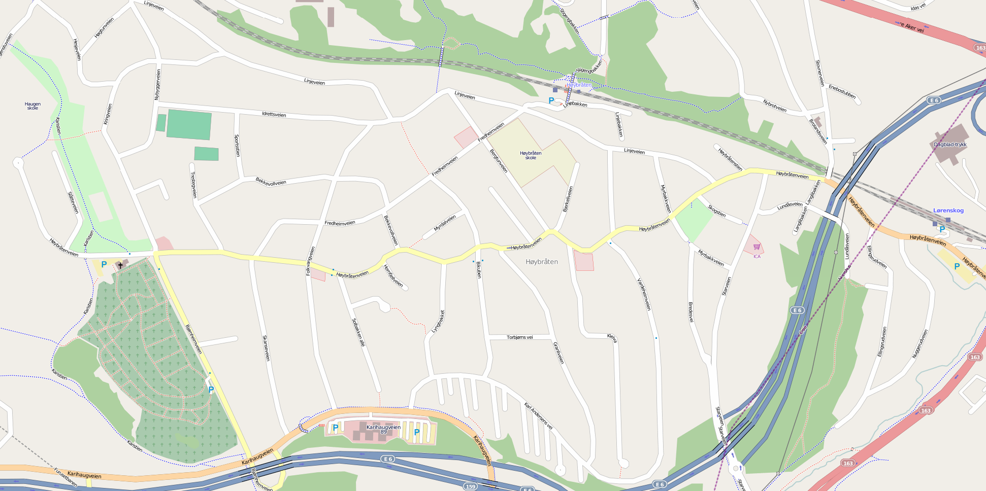 This map may be incomplete, and may contain errors. Don't rely solely on it for navigation.